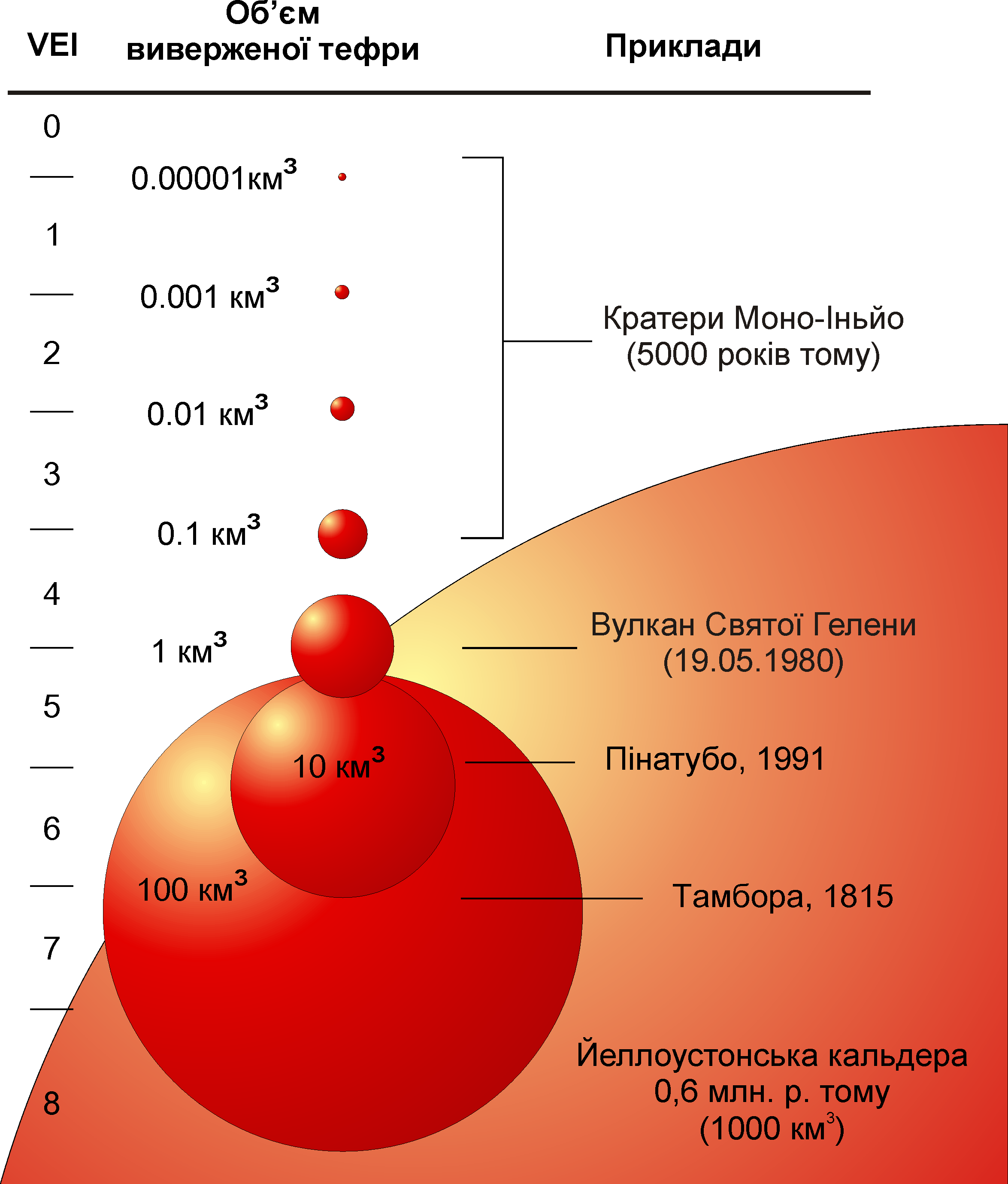 Volcanic Explosivity Index volume graph